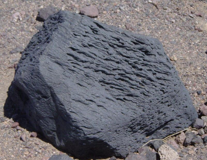 Photo by Daniel Mayer. Released under terms of the GNU FDL